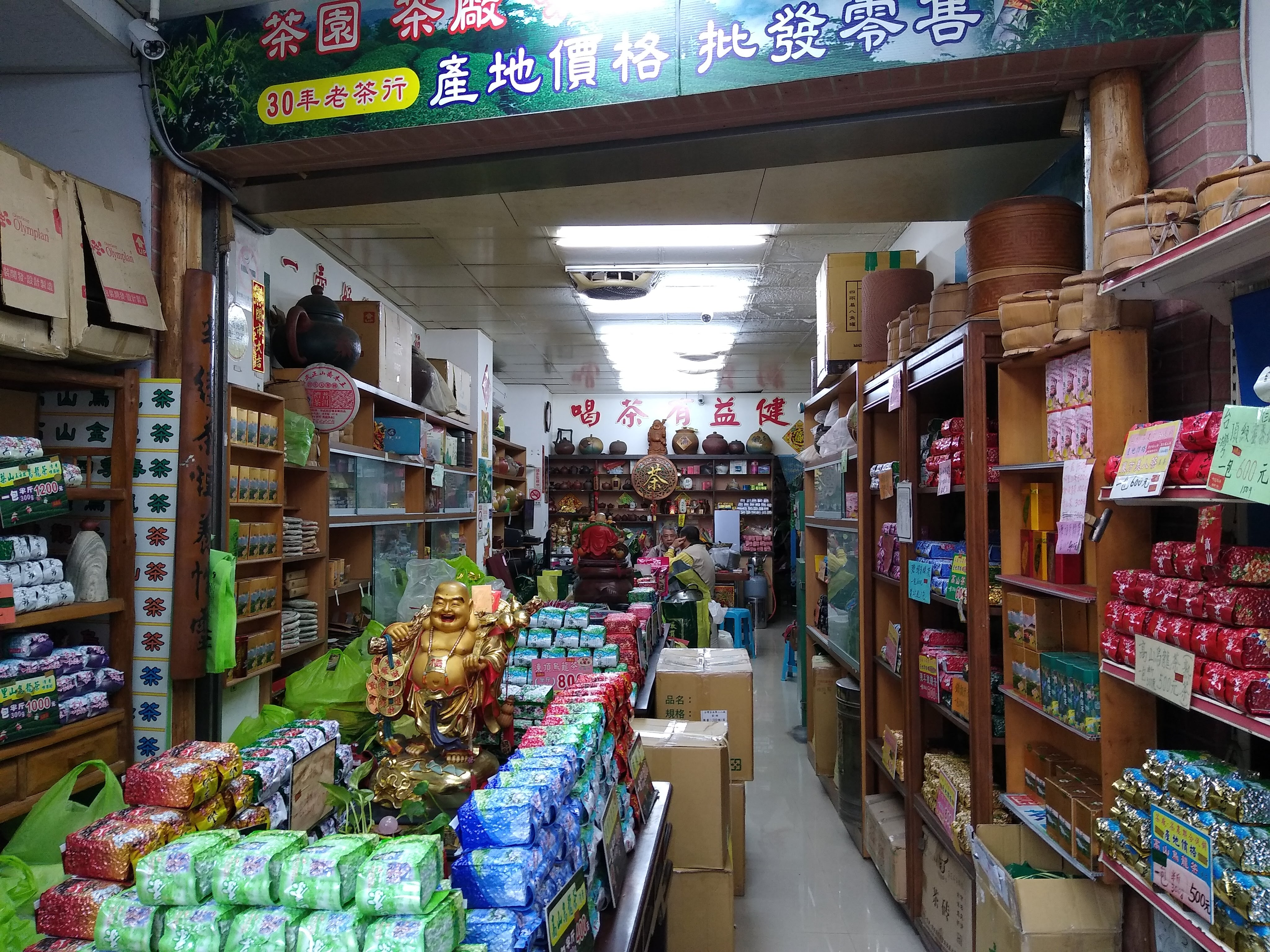 A shop in Tamsui (Danshui), Taiwan selling gaoshan tea.